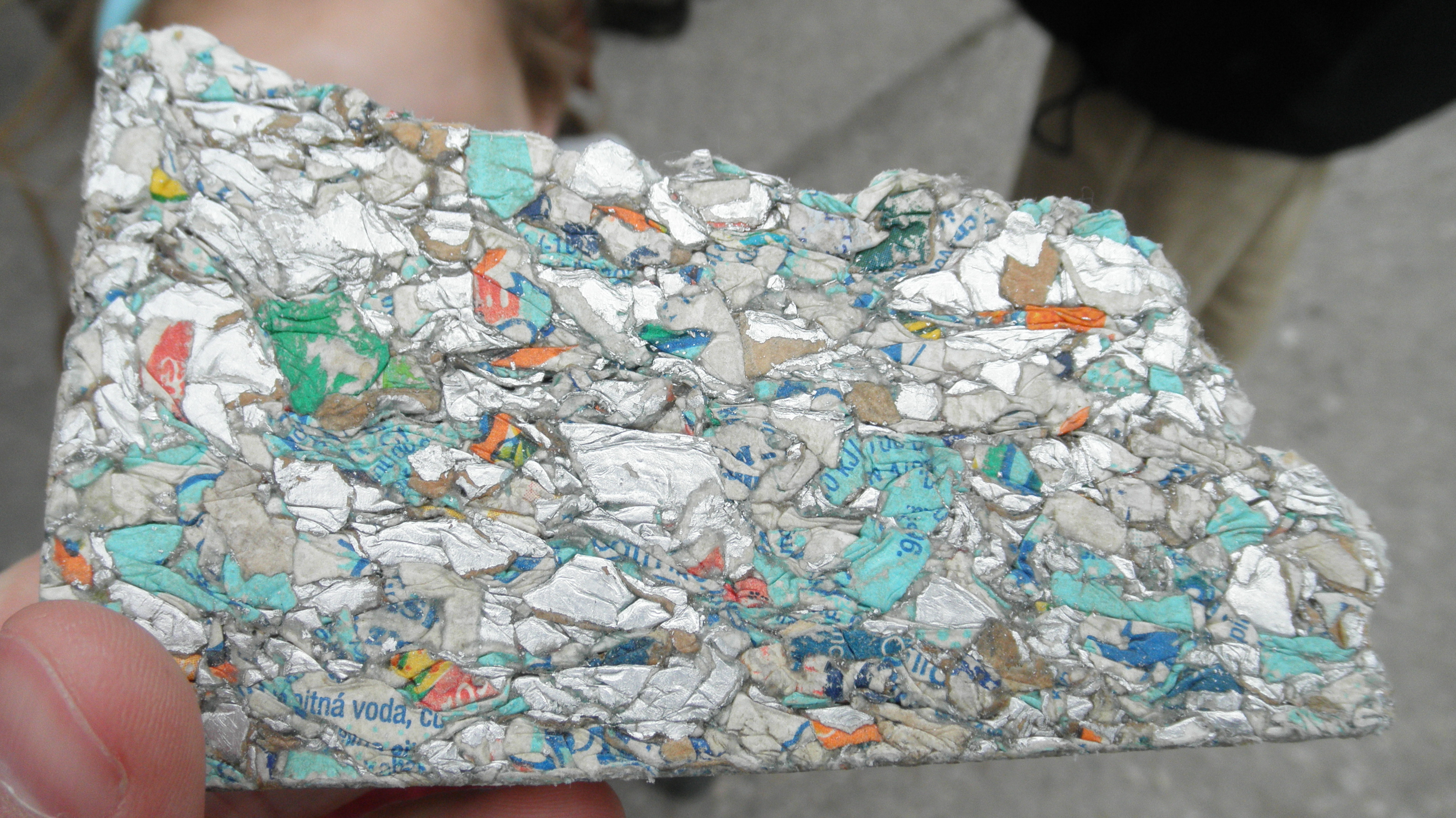 A piece of board from Flexibuild material made from recycled drink cartons. It is produced by Flexibuild s.r.o, in Hrušovany u Brna, Czech Republic. This material is used for building of family houses.